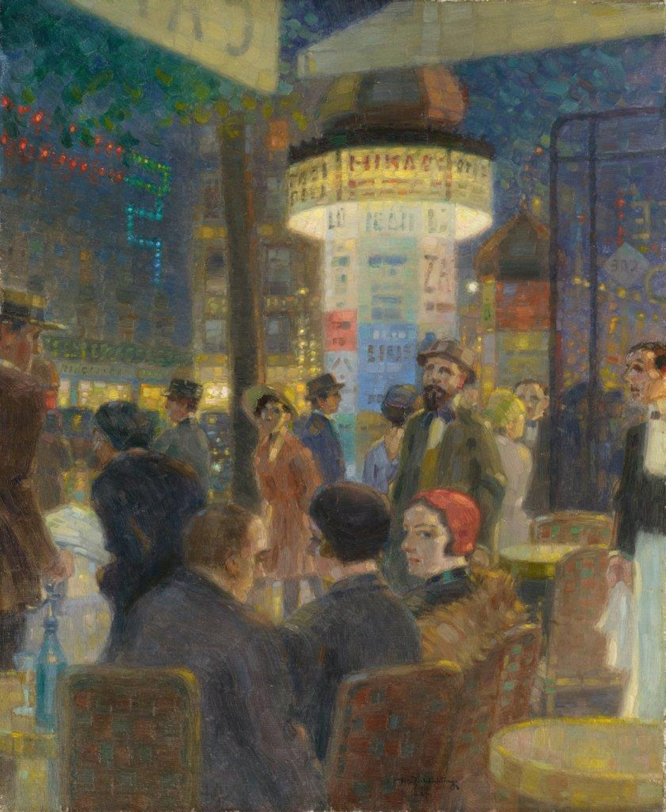 Max Schlichting: Boulevardcafé in Paris, Oil on canvas, 60,5 x 49,7 cm. Formerly: Klaus-J-Jacobs-Collection